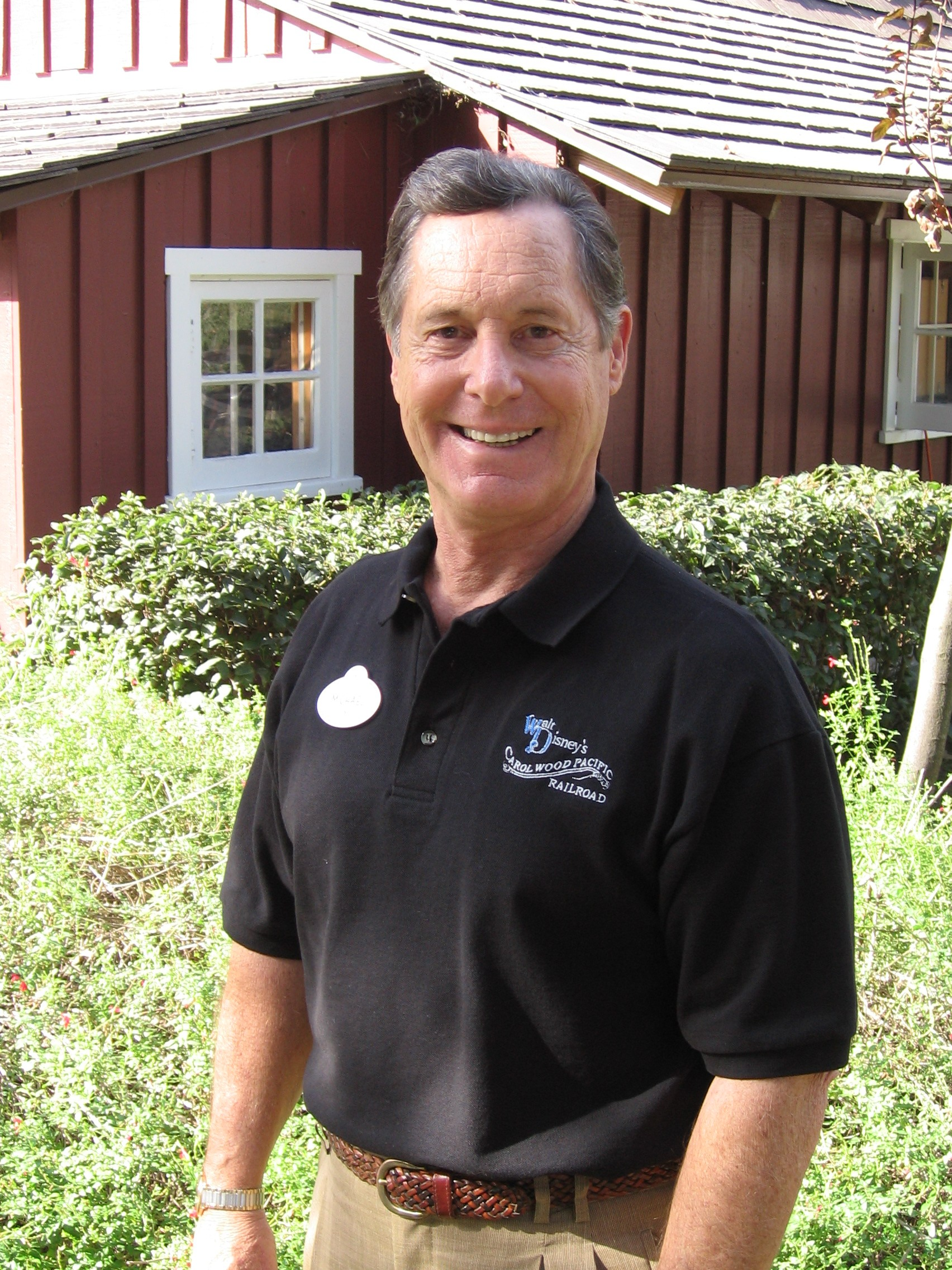 Photo of Michael Broggie taken at Walt Disney's Carolwood Barn